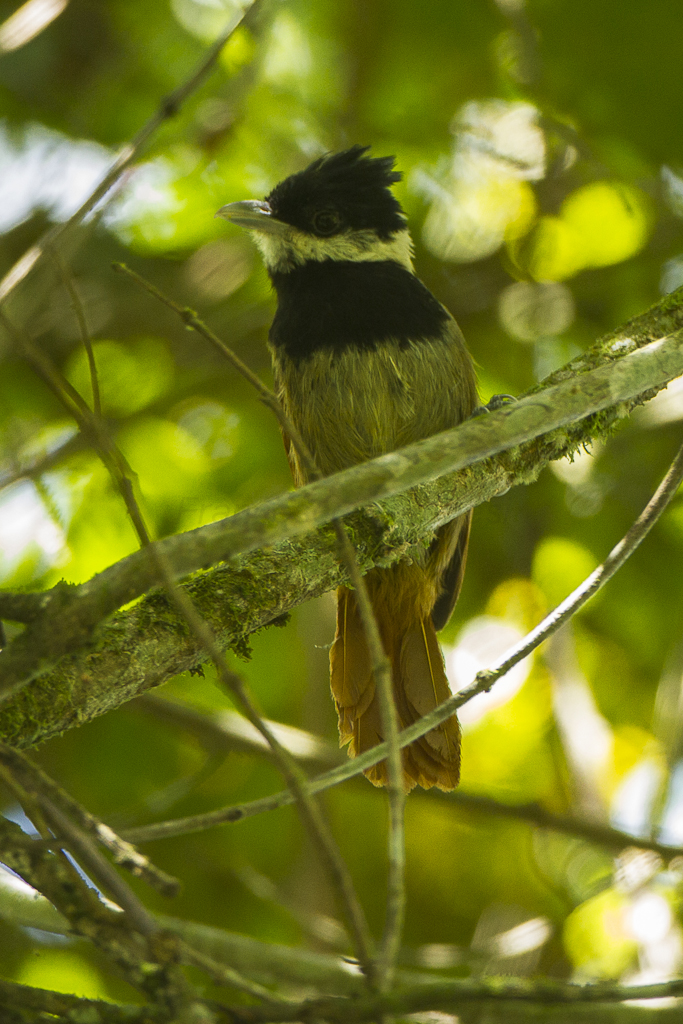 White-bearded Antshrike - Intervales NP - Brazil_S4E9828